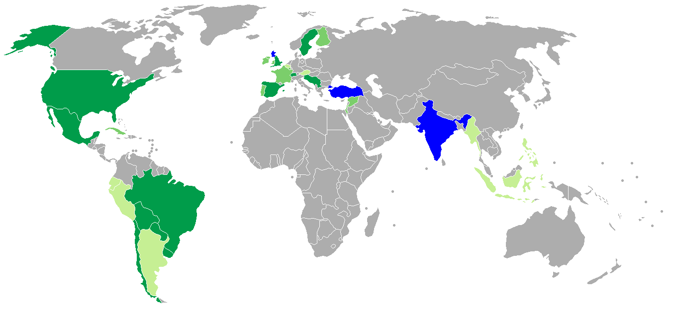 Qualification for the 1950 FIFA World Cup Country didn't participate Country has banned By FIFA (was not permitted to participate in qualification) Country withdrawed or entry didn't accepted by FIFA Country participated in the qualification tournament Country qualified to the finals Country qualified to the finals, but withdrawed